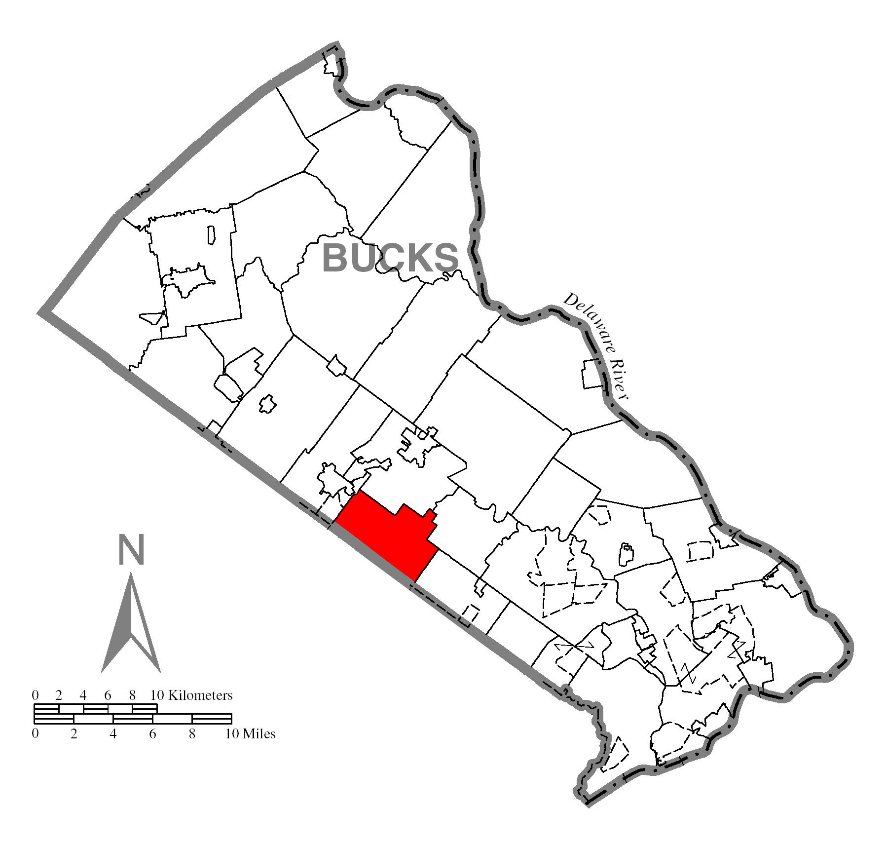 A map of Bucks County showing Warrington Township, Pennsylvania (alternate) highlighted on the map.